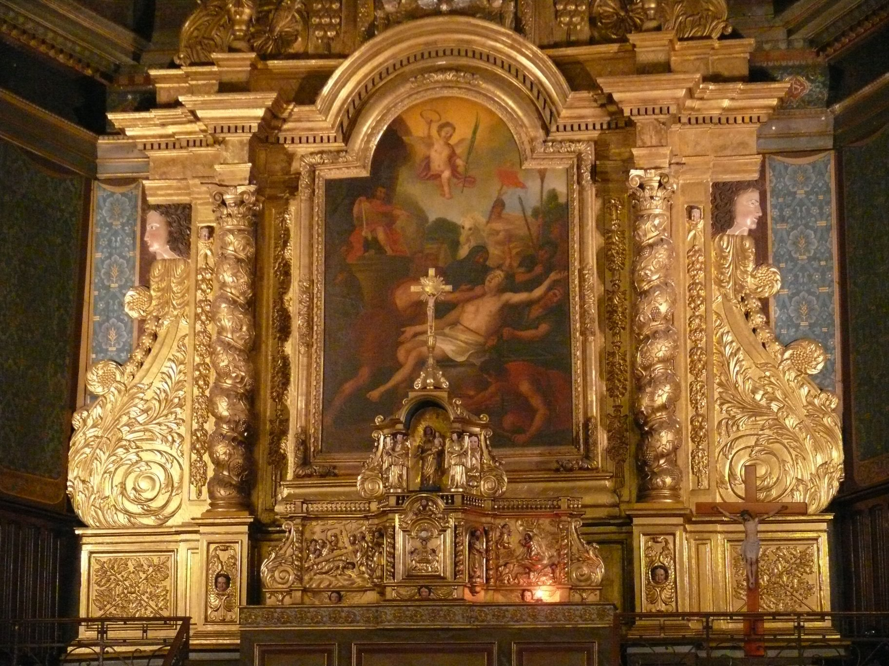 Saint-Laurent's church of Cambo-les-Bains (Pyrénées-Atlantiques, Aquitaine, France).